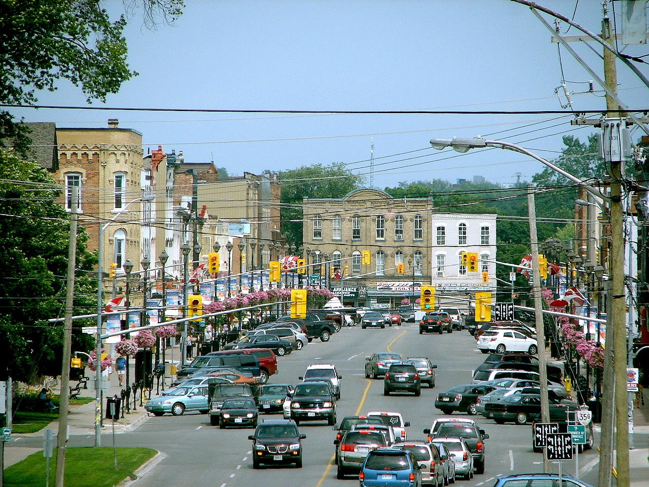 Town centre of Lindsay (City of Kawartha Lakes), Ontario, Canada